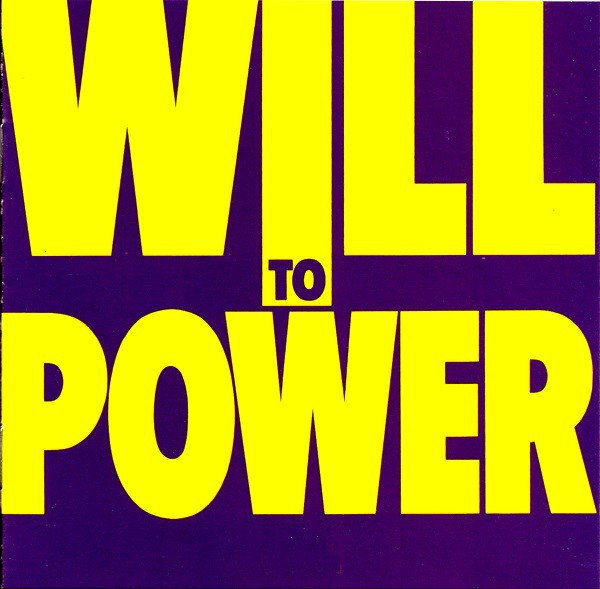 Front cover of the vinyl release of Will to Power's self-titled (eponymous) album